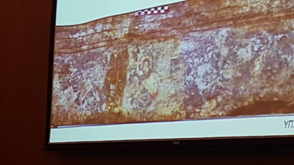 One of the 7 architraves, found in the 2nd Chamber, after some restoration work is done (more work is under development) and the good where some figures have appeared.